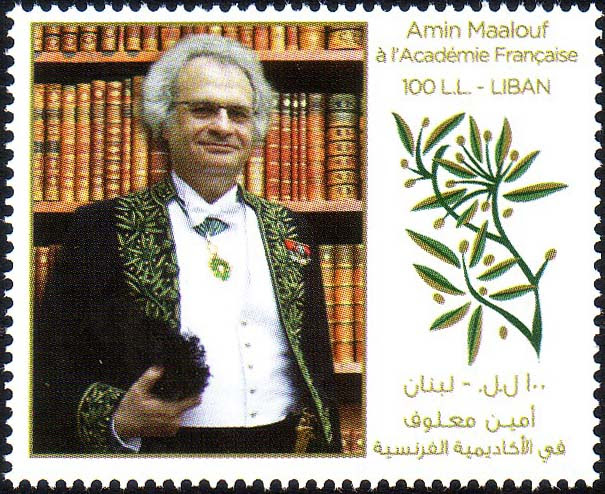 Amin Maalouf lebanese stamp